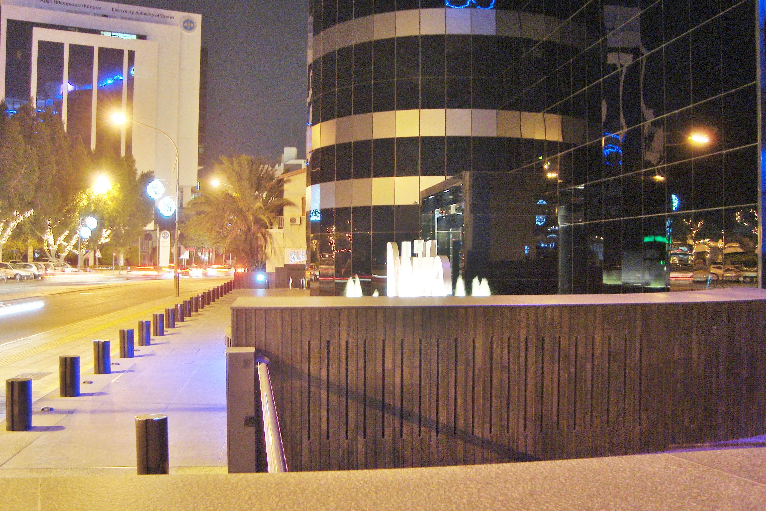 Delloite Headquarters of Cyprus in Nicosia Spyros Kyprianou avenue